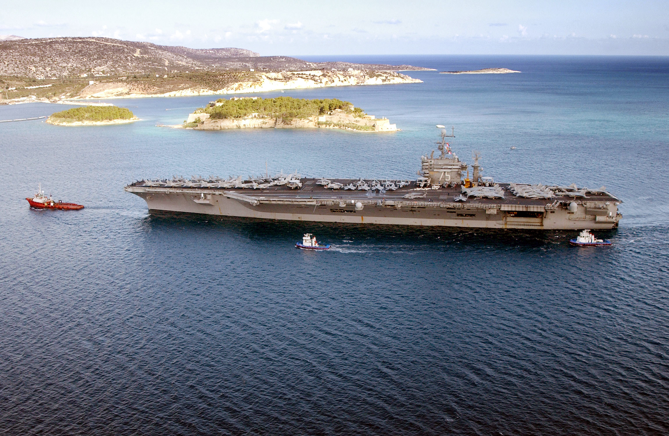 021230-N-9851B-045 Souda Bay, Crete, Greece (Dec. 30, 2002) -- USS Harry S. Truman (CVN 75) and Carrier Air Wing Three (CVW-3) are on a regularly scheduled deployment in support of Operation Enduring Freedom. U.S. Navy photo by Photographer's Mate 2nd Class John L. Beeman. (RELEASED)